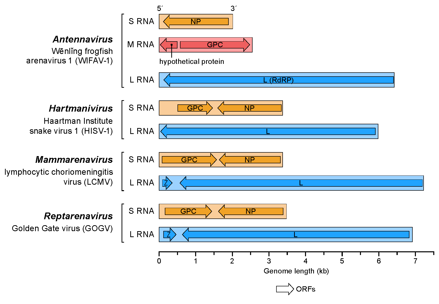 Scheme of genome organization of the genus of family Arenaviridae. GPC, glycoprotein precursor; NP, nucleoprotein; Z, zinc finger matrix; L, RNA-dependent polymerase. ORF are separated by non-coding intergenic regions (IGRs), which form hairpin structures (not shown)